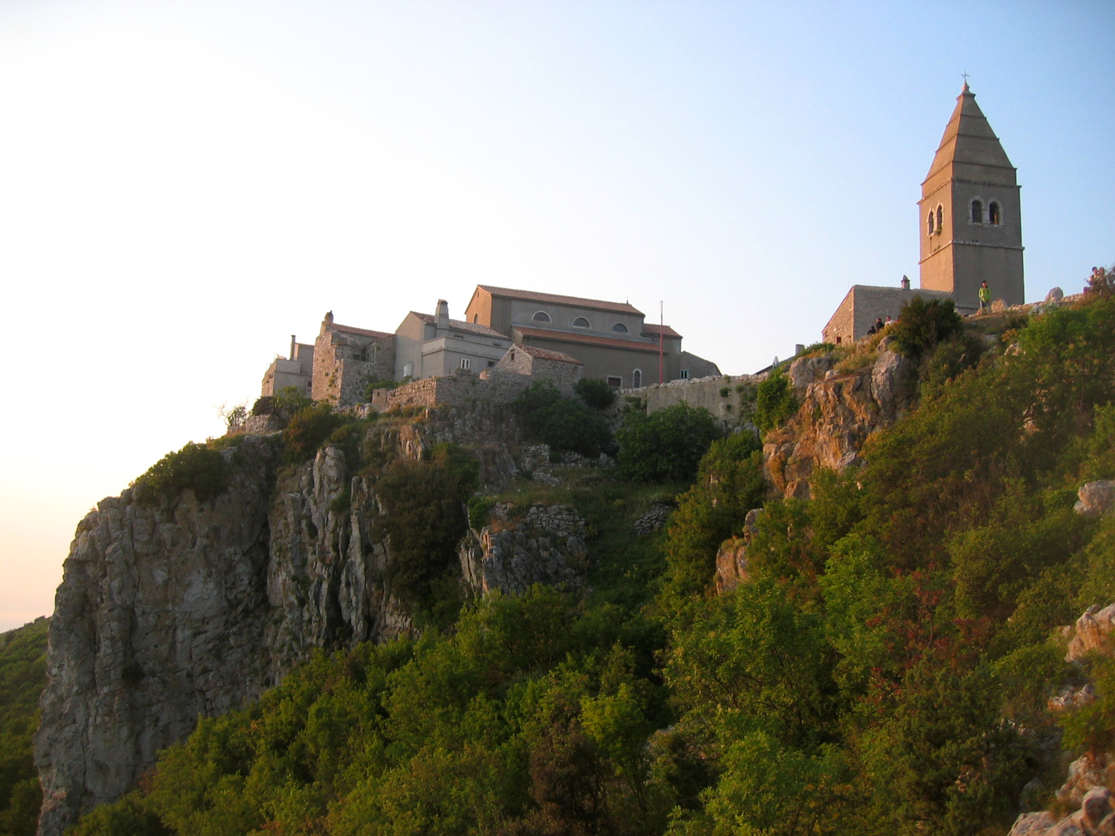 Lubenice, village at Cres island, Croatia